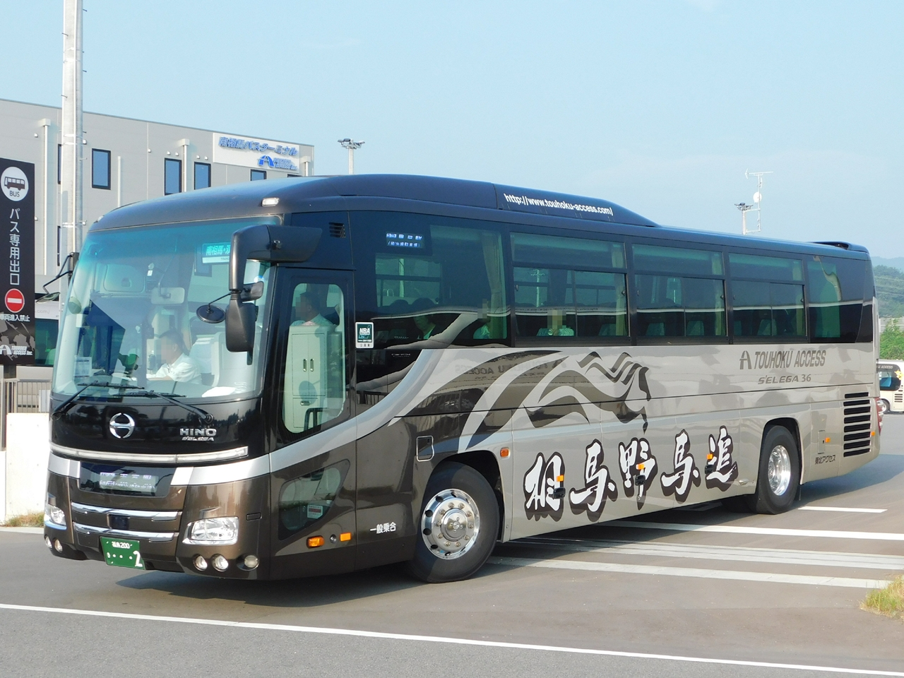 Touhoku access highwaybus "Minamisoma,Futaba liner"(Minamisoma-Tokyo sta.) ,Hino S'elega